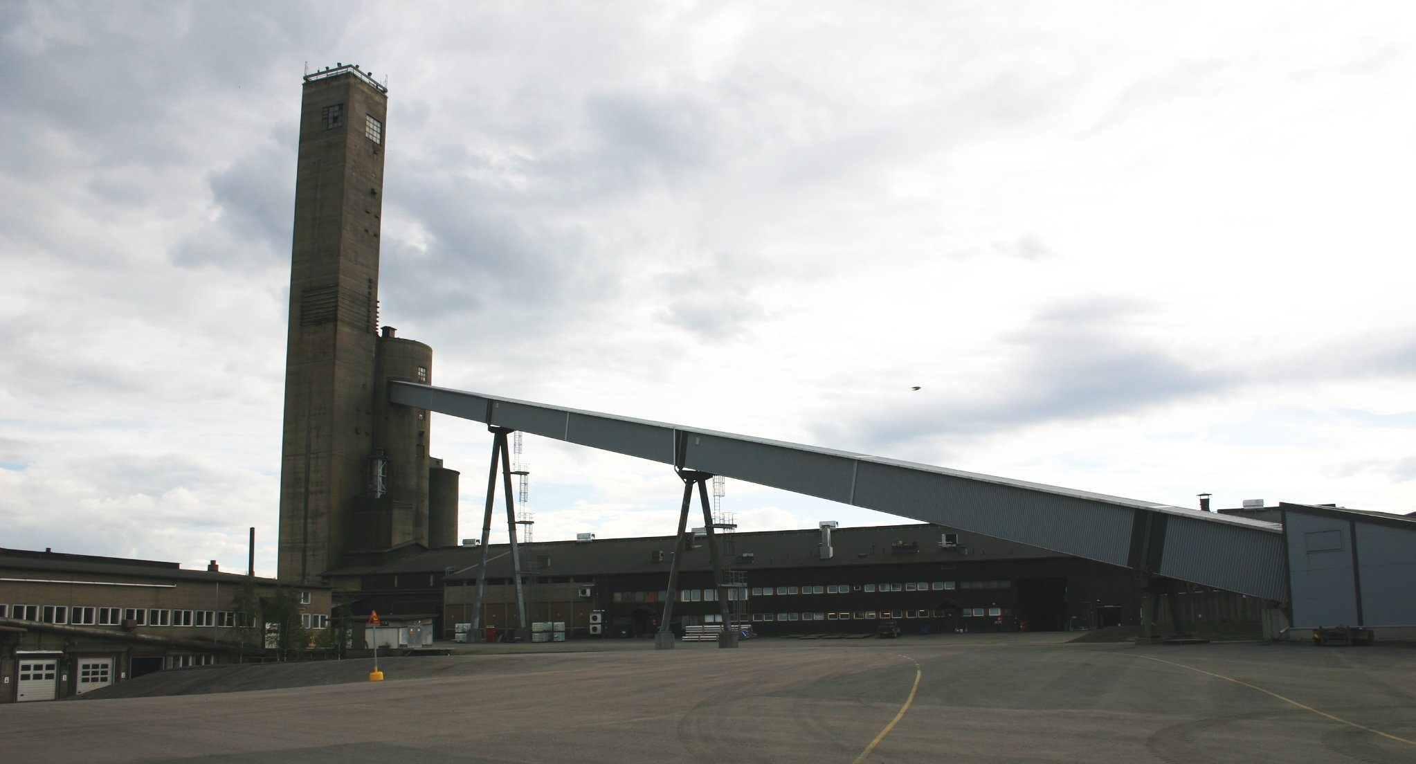 Picture of Pyhäsalmi mine area in Pyhäjärvi, Finland, showing the old tower and other buildings, including ore mill facility behind the ore conveyor.